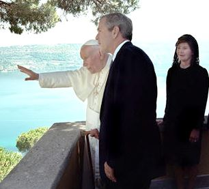 US President George W. Bush and his wife Laura Bush visit Pope John Paul II at Castel Gandolfo near Rome, Italy, July 23, 2001.